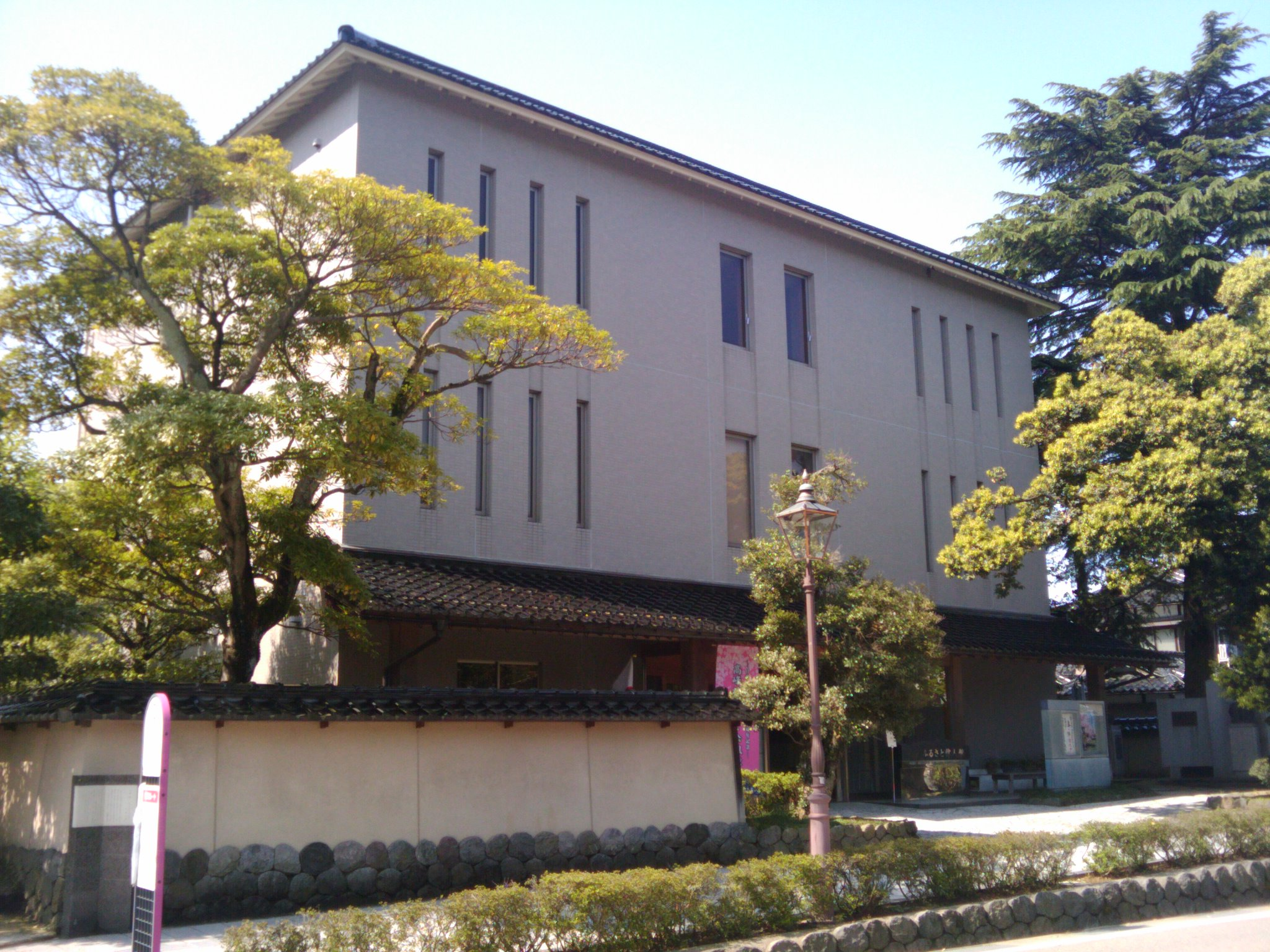 Great People of Kanazawa Memorial Museum (Kanazawa, Ishikawa, Japan)